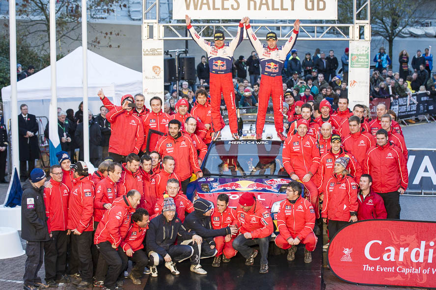 Wales Rally GB 2010 Butetown,Cardiff,Citroen C4 WRC,Citroen Total WRT,Daniel Elena,GBR,Großbritannien,Rally,Rallye,Sebastien Loeb,Siegerehrung,WRC,Wales